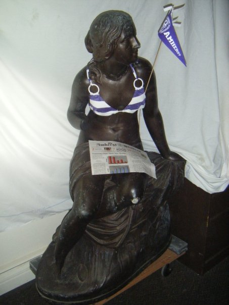 A photo demonstrating the liberation of the Sabrina Statue